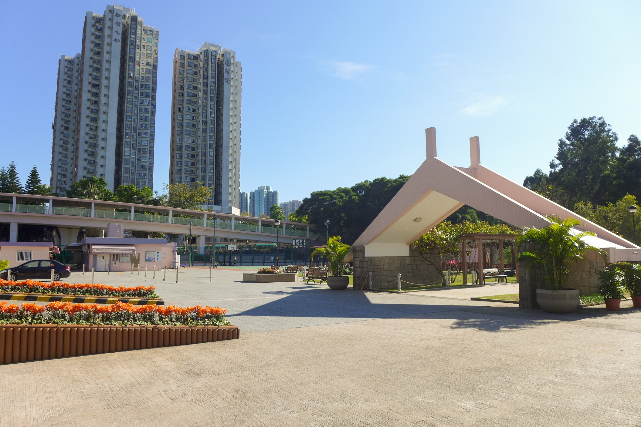 Fanling Recreation Ground